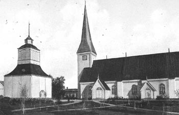 Raahe Old Church, burnt down 23.7.1908